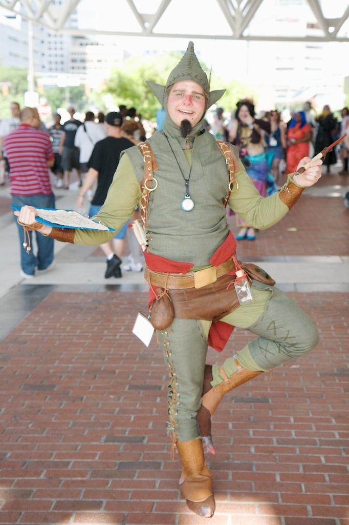 [Otakon 2009] Tingle from The Legend of Zelda